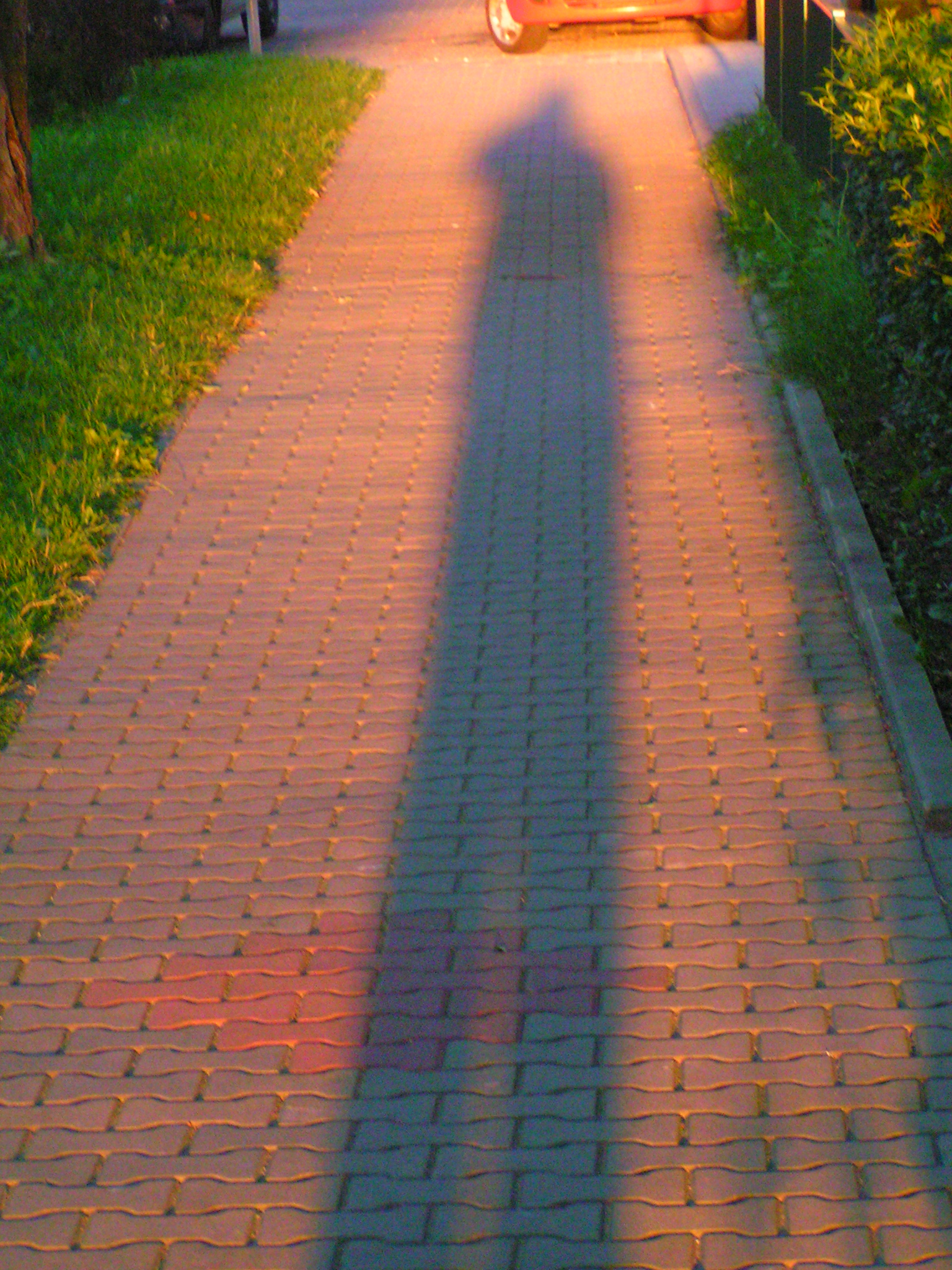 Hey, that is me Wuhazet - Henryk Żychowski